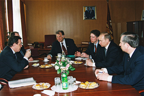 ST PETERSBURG. President Vladimir Putin and German Chancellor Gerhard Schroeder visiting Ioffe Institute of Physics and Technology, Russian Academy of Sciences. Enjoying a cup of tea with the institute\'s Nobel Prize-winning head, Zhores Alfyorov, centre.